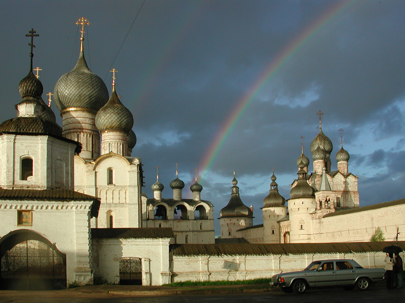 Partial view of the Kremlin of Rostov, Yaroslavl Oblast.